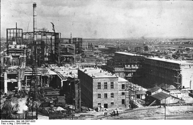 IG Farben's plant, near Auschwitz" ; Overview Power Plant. Source : German Federal Archive